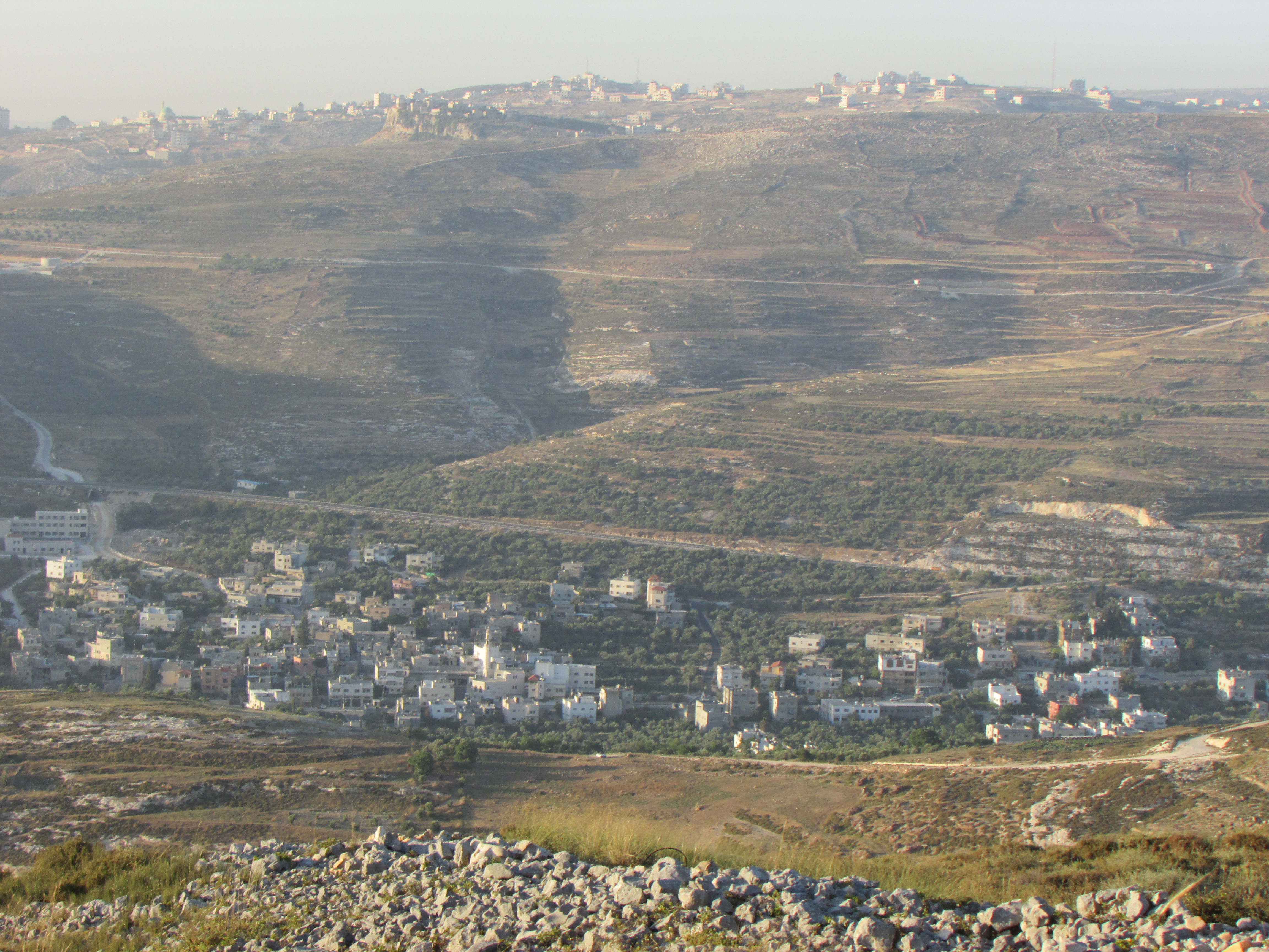 Madama from the south (Yitzhar)